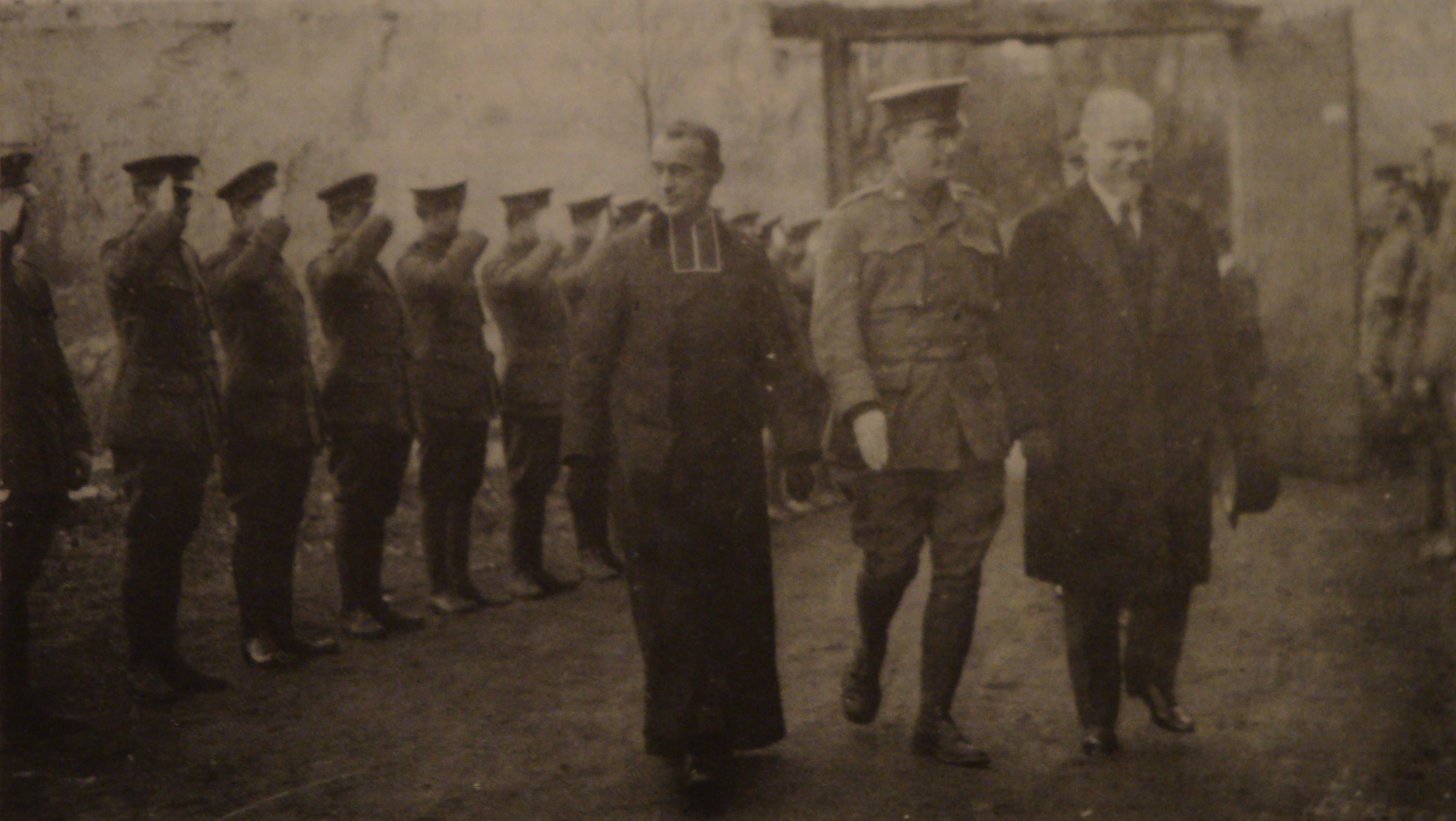 French President Raymond Poincaré at Juilly College, 1915.